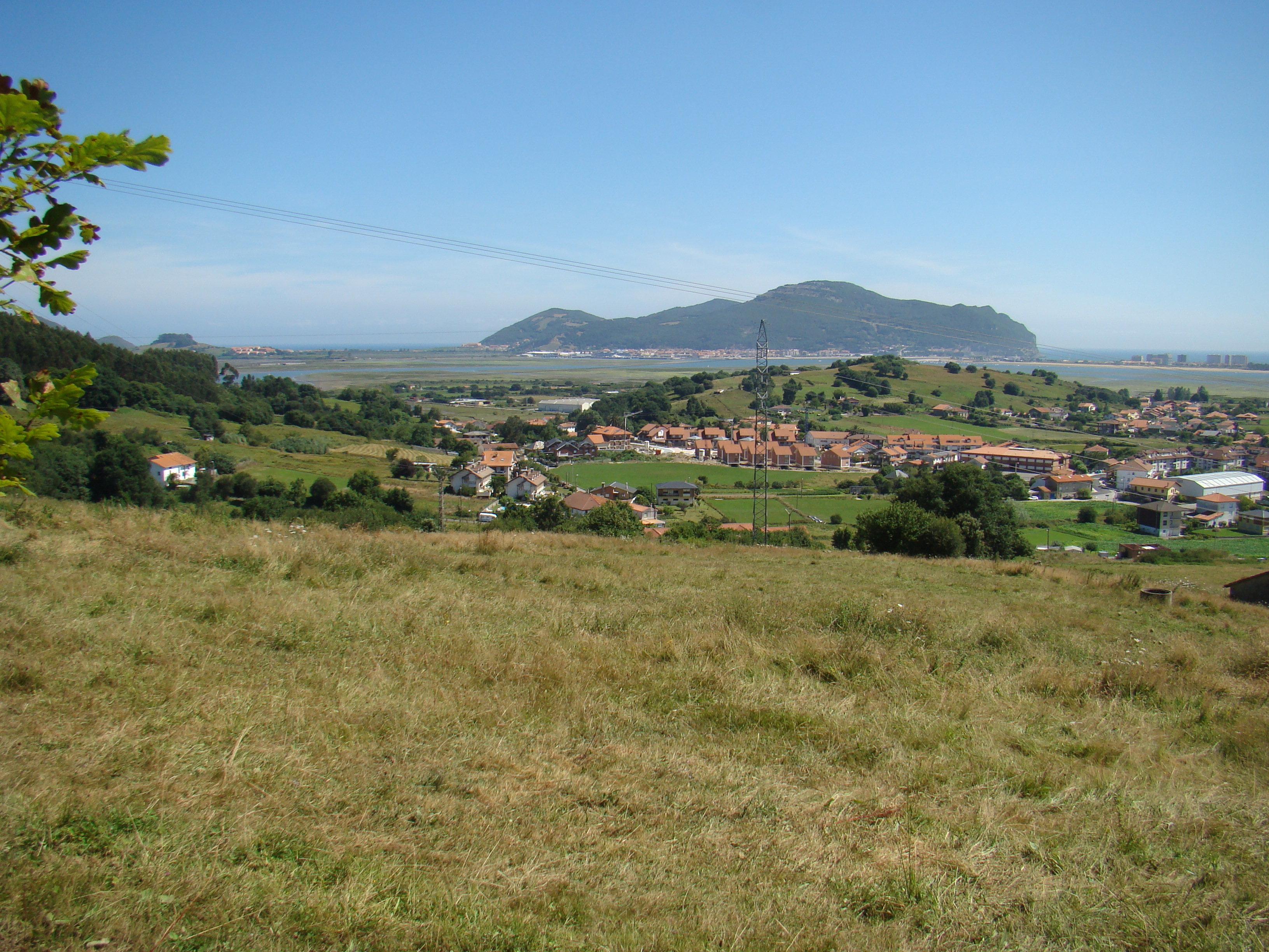 Partial view of Cicero, in Cantabria, Spain.